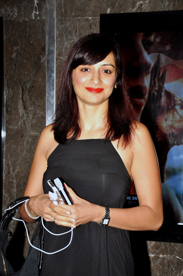 Gauri Pradhan at the special screening of ‘Thoda Lutf Thoda Ishq’